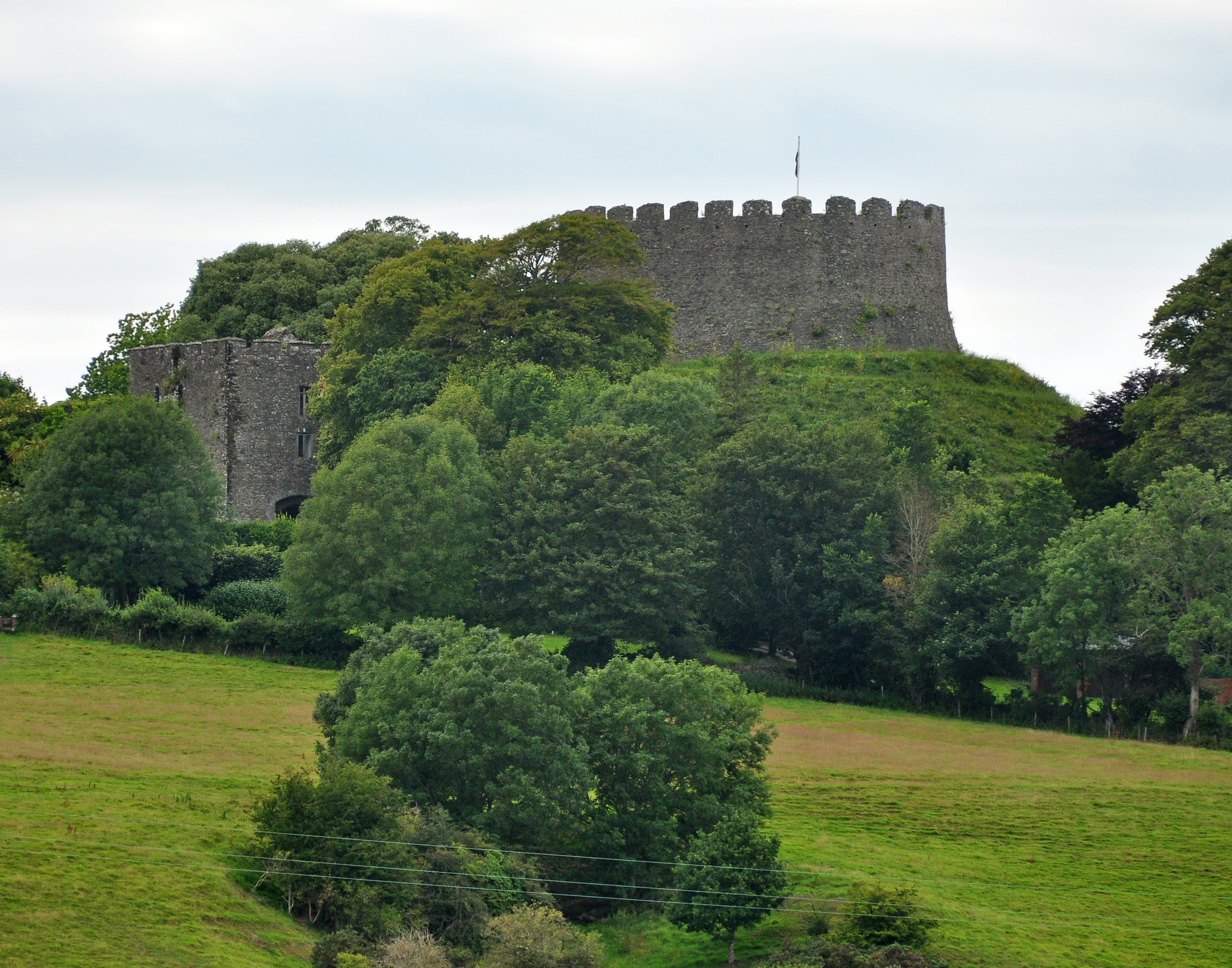 Trematon Castle, near Saltash in Cornwall.